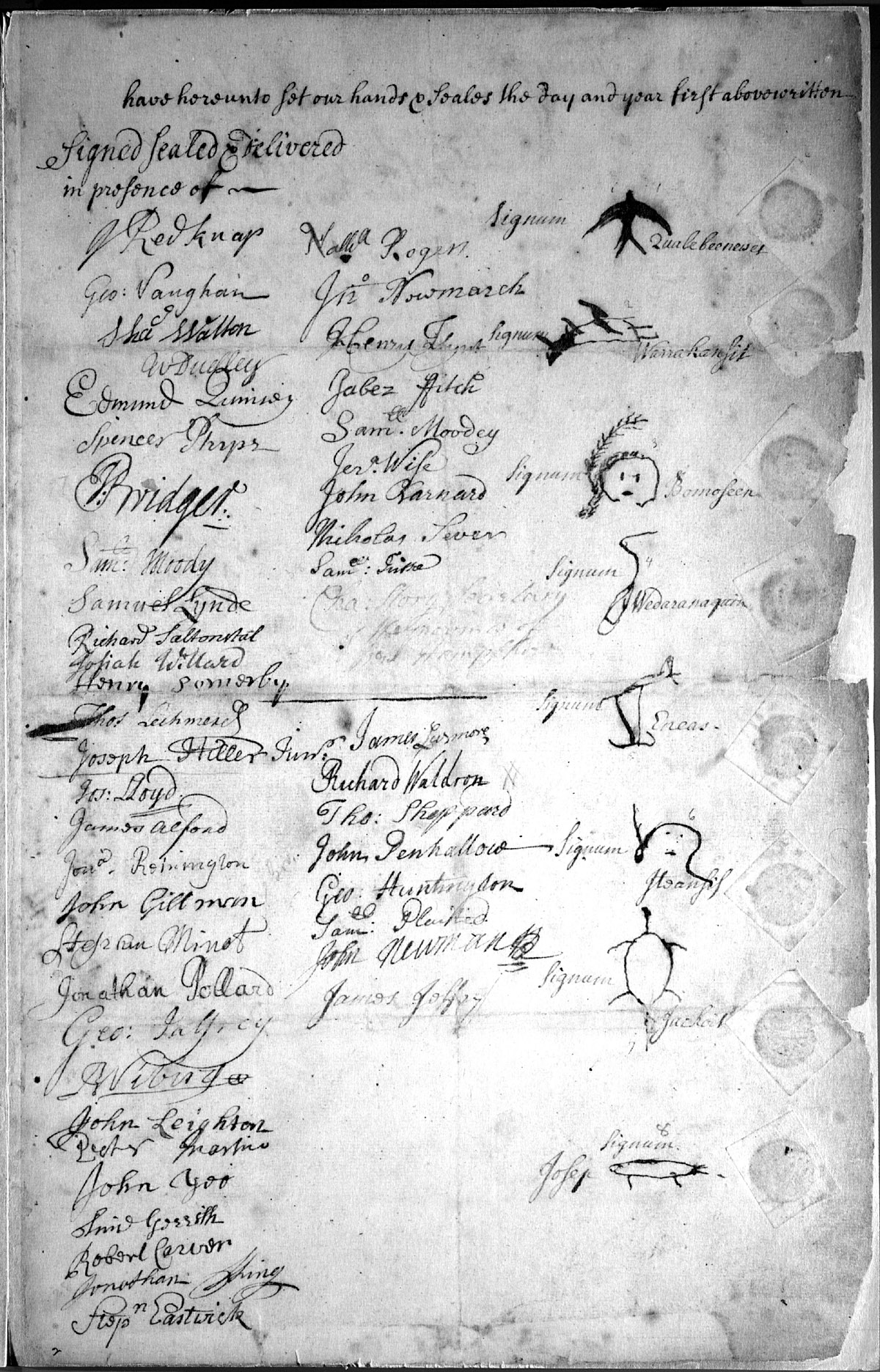 The Treaty of Portsmouth (1713), page 3.